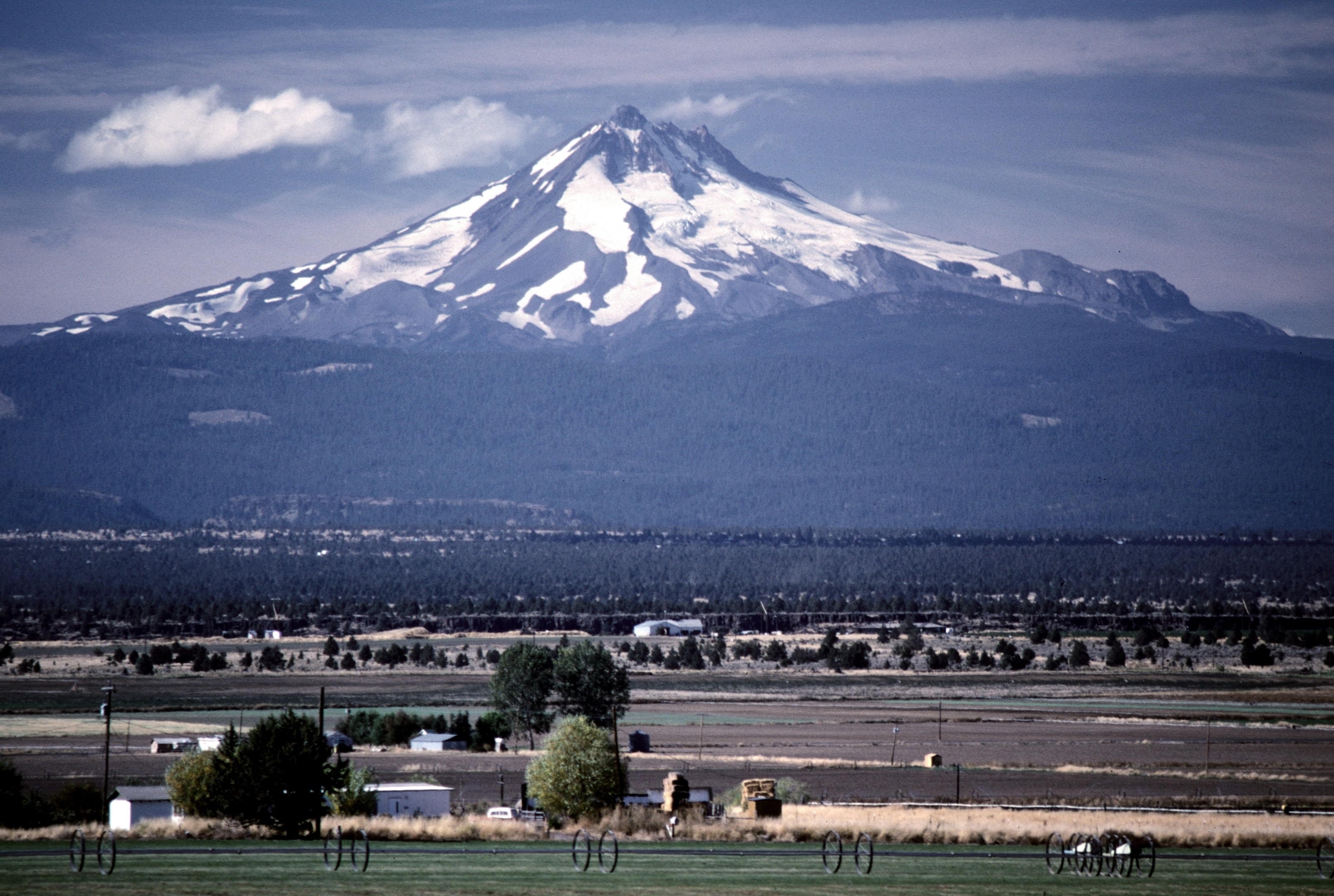 Mount Jefferson, Cascade Range, Oregon, United States